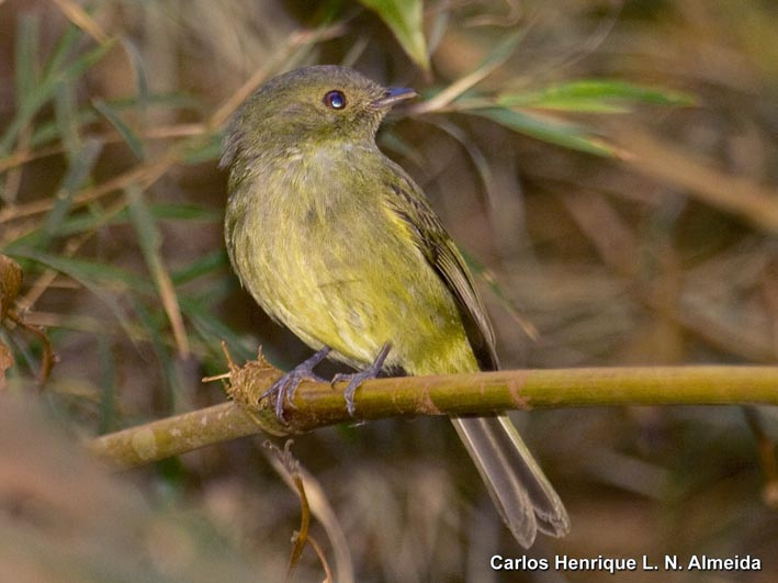 Neopelma chrysolophum Near Pedra do Baú (Campos do Jordao, Sao Paulo, Brazil)